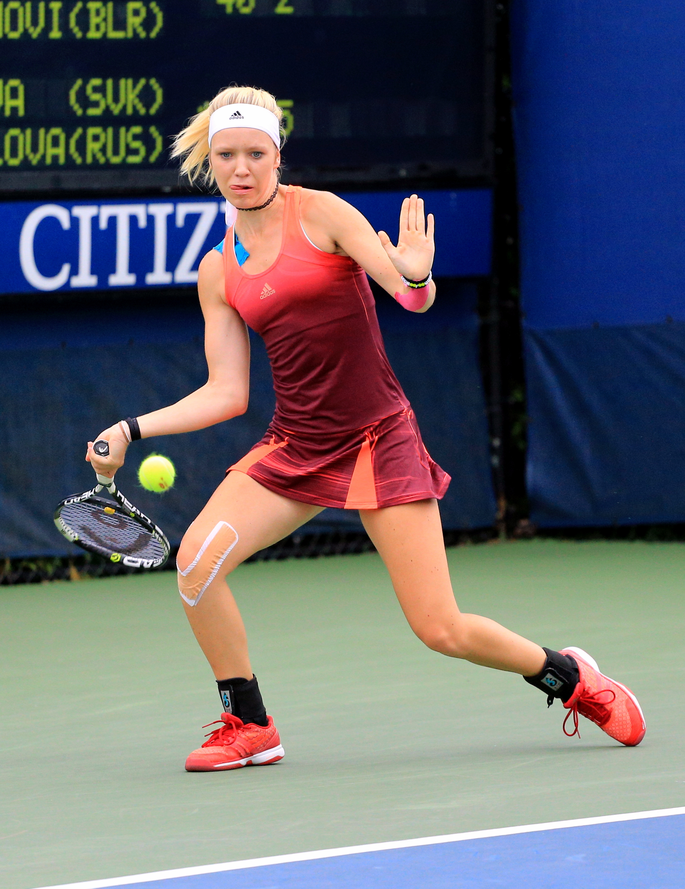 Katharina Hobgarski at the 2015 US Junior Open